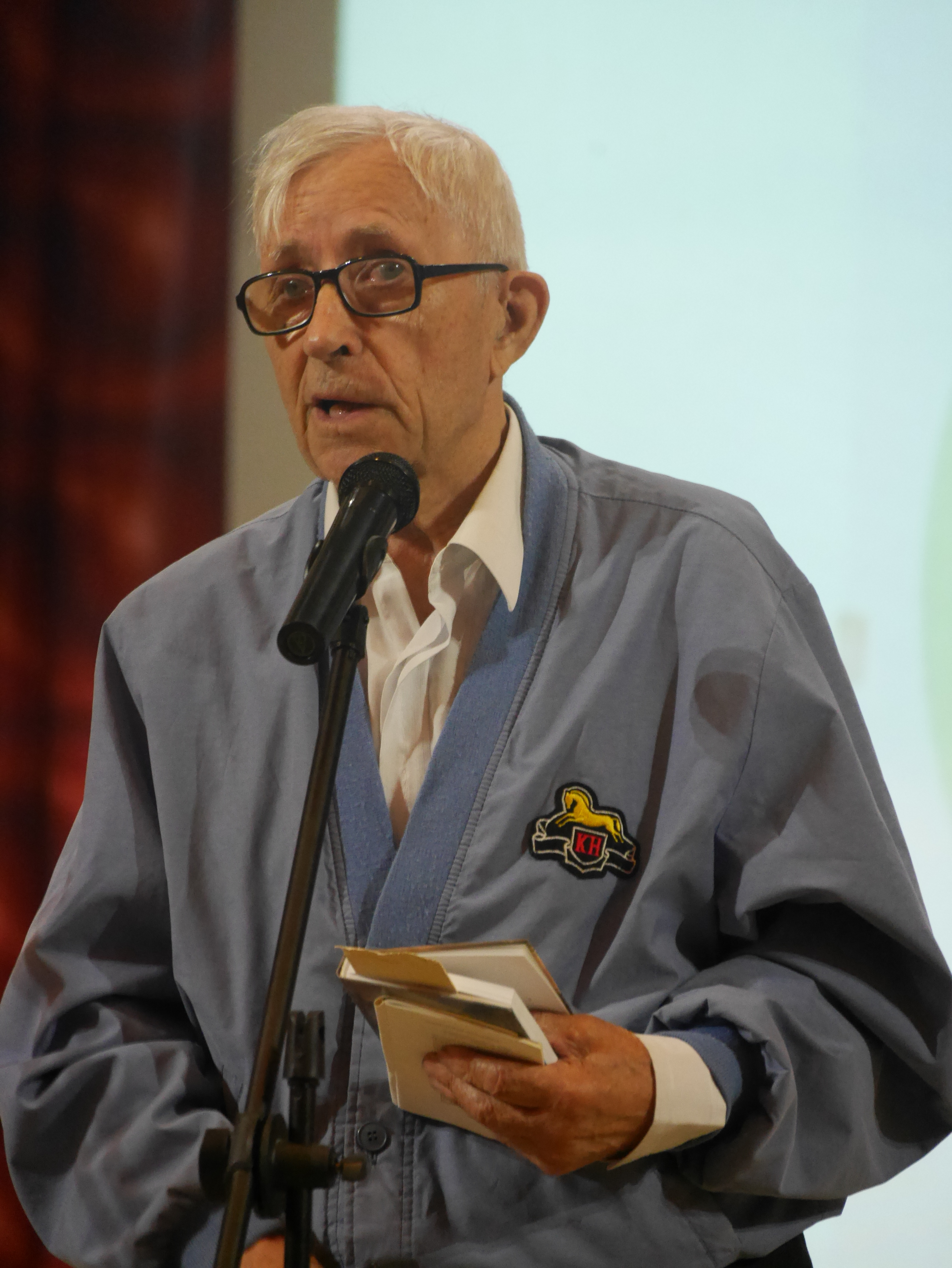 Alexander Volkov